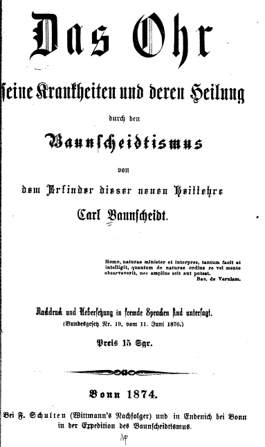 Title page of Das Ohr: Its Diseases and Their Cure by Carl Baunscheidt